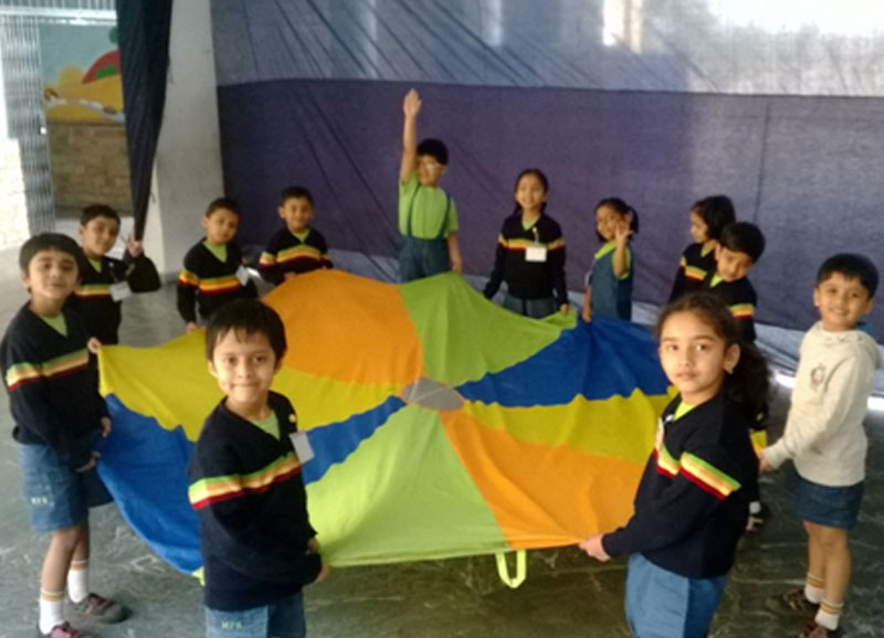 Amravati-bypass road